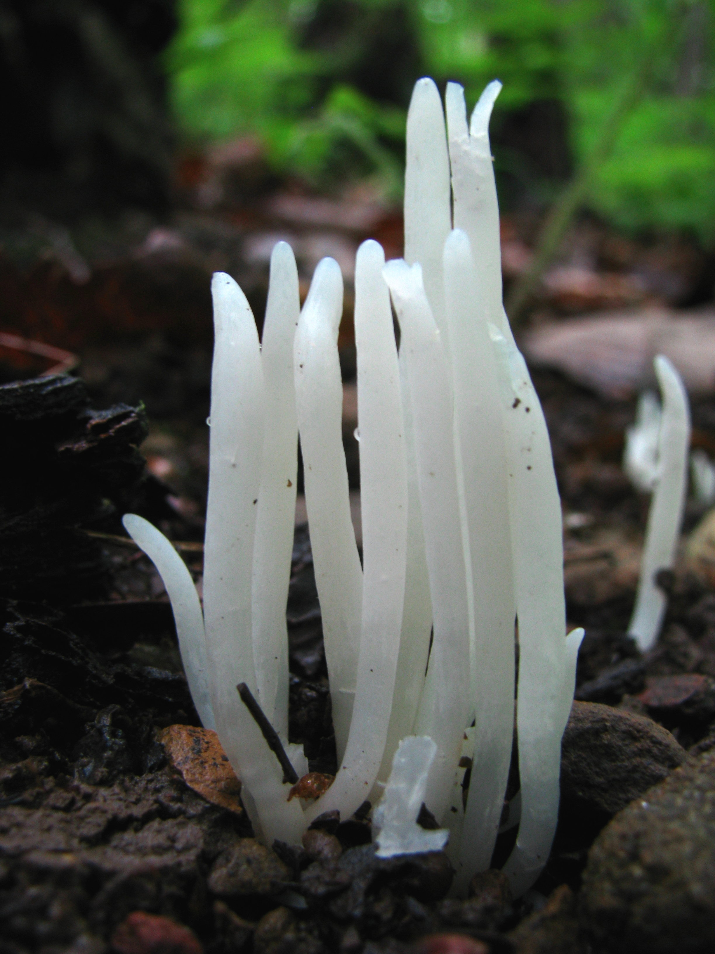 The coral fungus Clavaria fragilis Fries. Specimen photographed in Wayne National Forest, Athens Co., Ohio, USA.